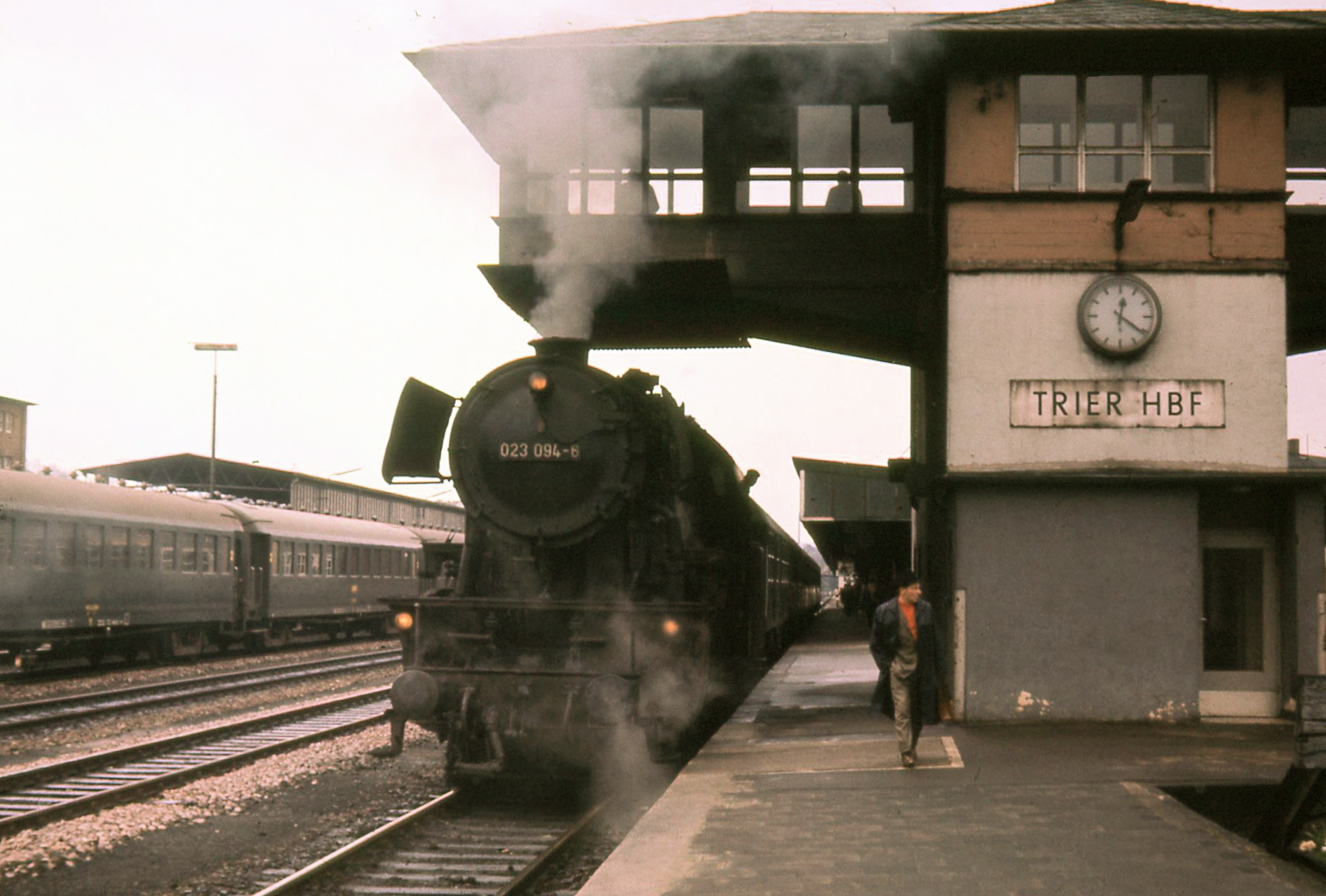 The DB Class 23 engine 23 094 on "Track 13" at Trier Hauptbahnhof on Easter 1973.